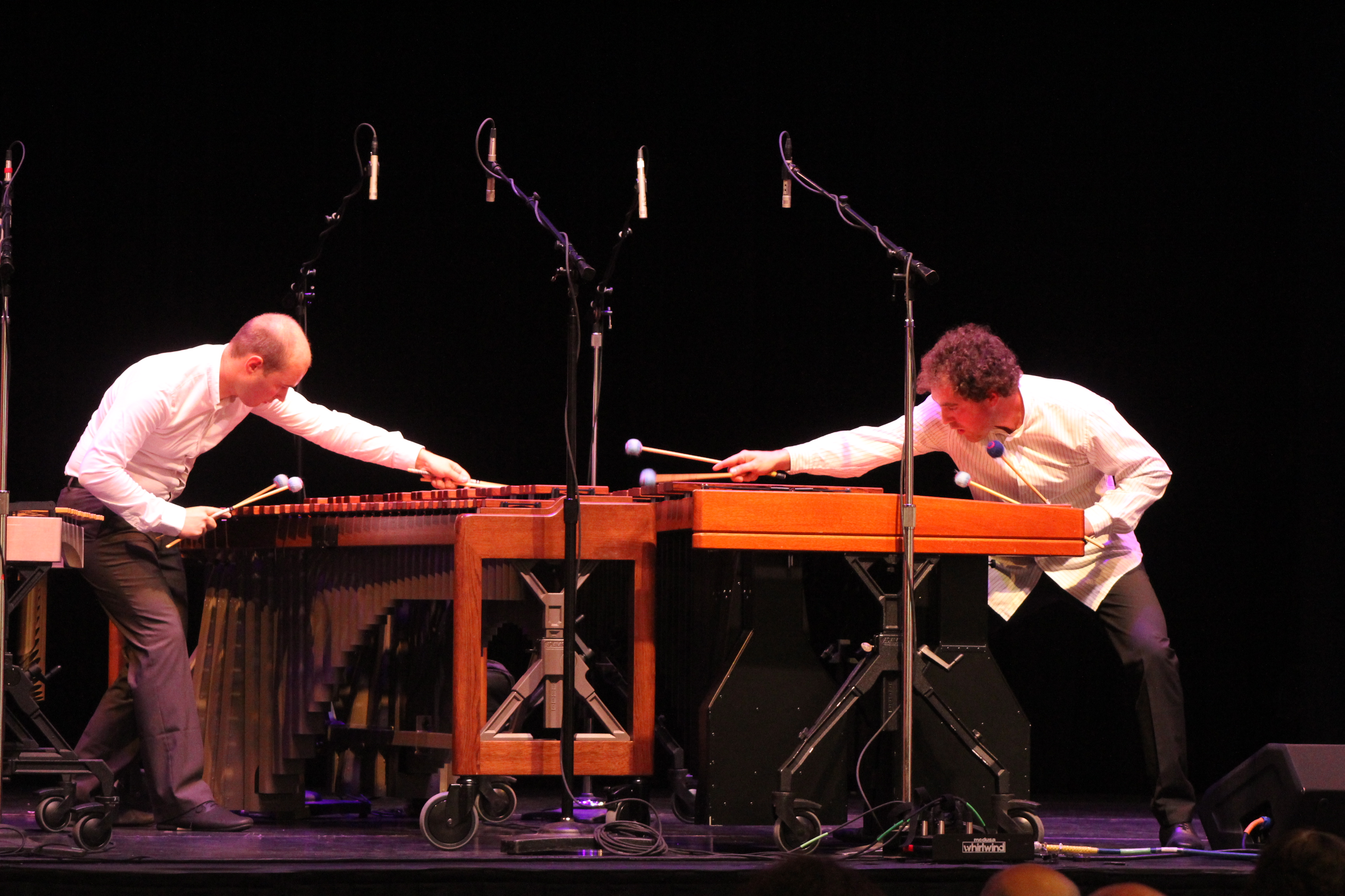 Joze bogolin in simon klavzar